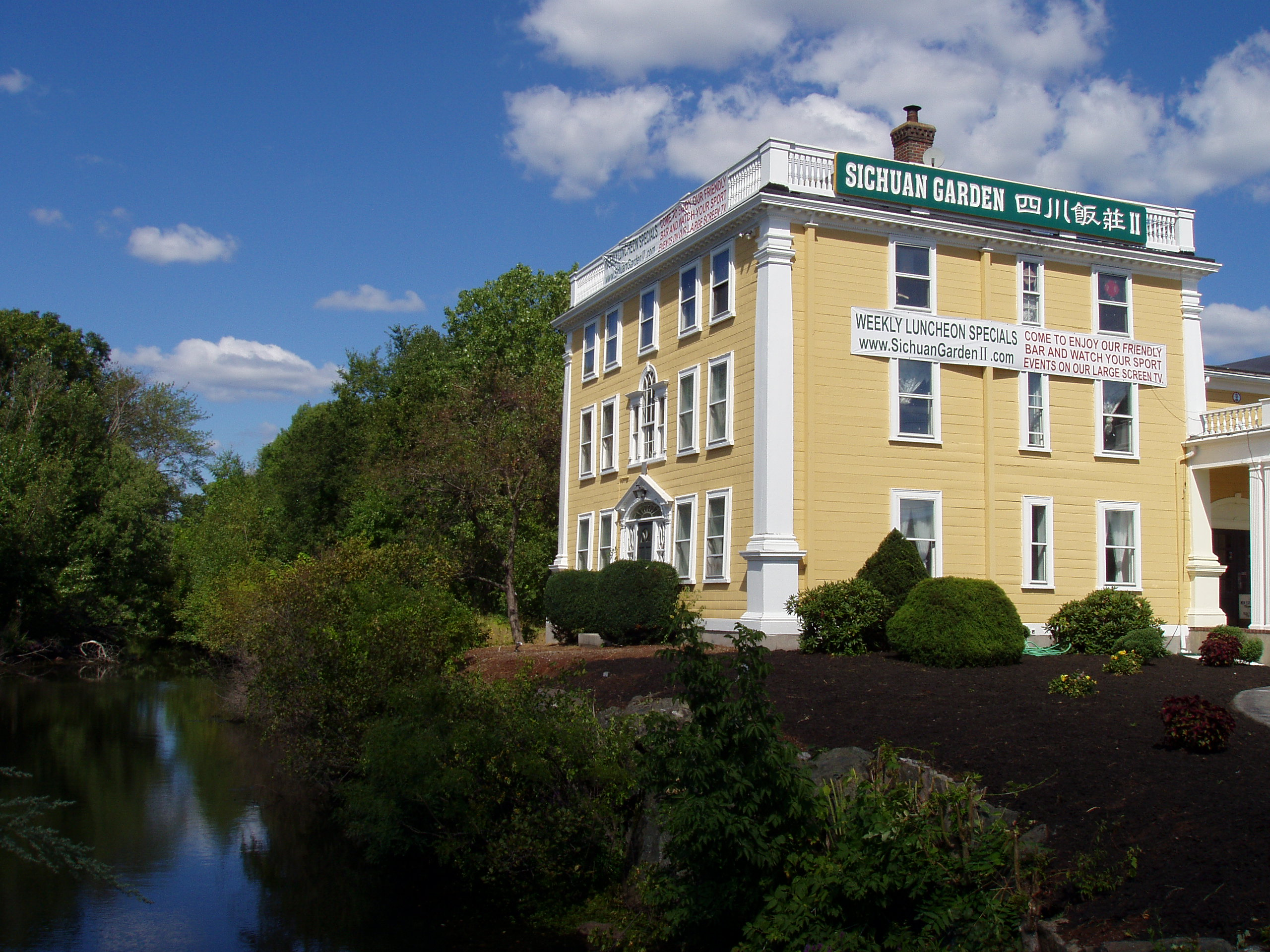 Baldwin House, Woburn, Massachusetts, with a stretch of the Middlesex Canal in foreground. Photograph taken by me, September 2005.